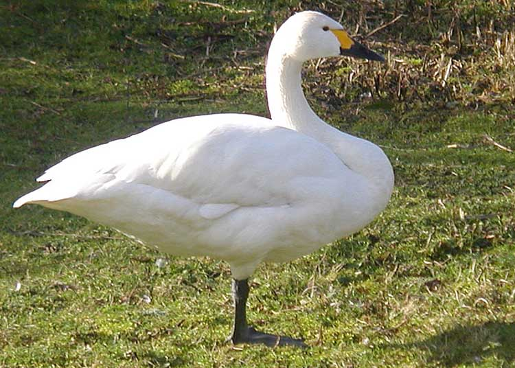 Bewick’s Swan (Cygnus columbianus) at Slimbridge Wildfowl and Wetlands Centre, Gloucestershire, England. This swan has one leg tucked up.